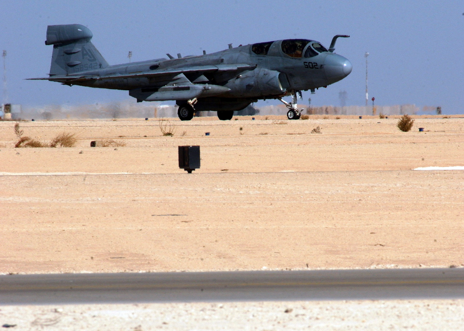 Al Asad, Iraq (Nov. 14, 2005) - An EA-6B Prowler, assigned to the "Shadowhawks" of Electronic Attack Squadron One Four One (VAQ-141), taxis down the runway at the Al Asad Air Base. A detachment of the "Shadowhawks" is stationed at Al Asad flying missions in support of the Global War on Terrorism. VAQ-141 is assigned to Carrier Air Wing Eight (CVW-8), currently embarked aboard USS Theodore Roosevelt (CVN 71). U.S. Navy photo by Photographer's Mate 3rd Class Randall Damm (RELEASED)